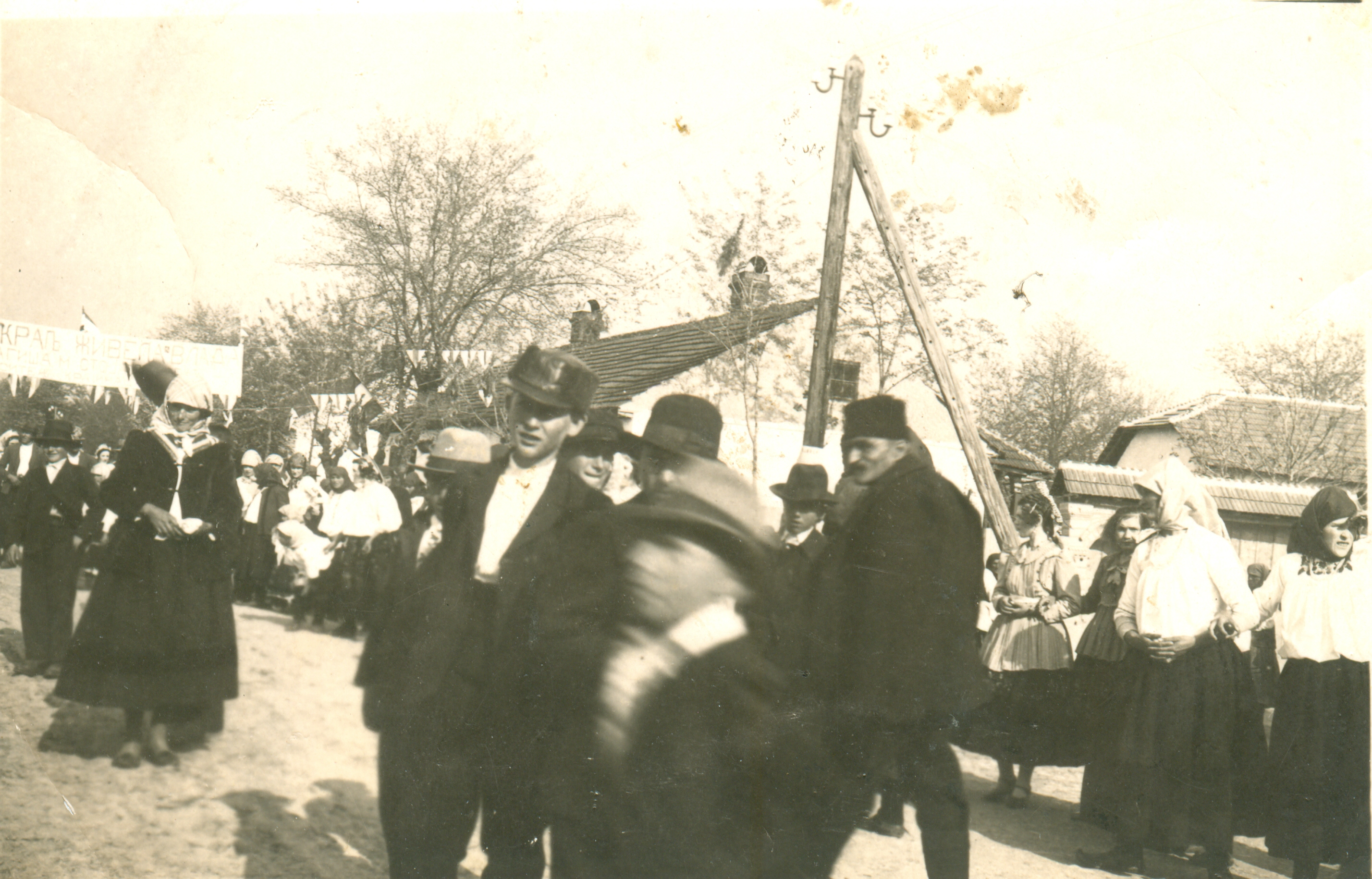 Dragisa Stojadinovic in Radujevac during the occupation Srpski (latinica): Dragiša Stojadinović u Radujevcu za vreme okupacije